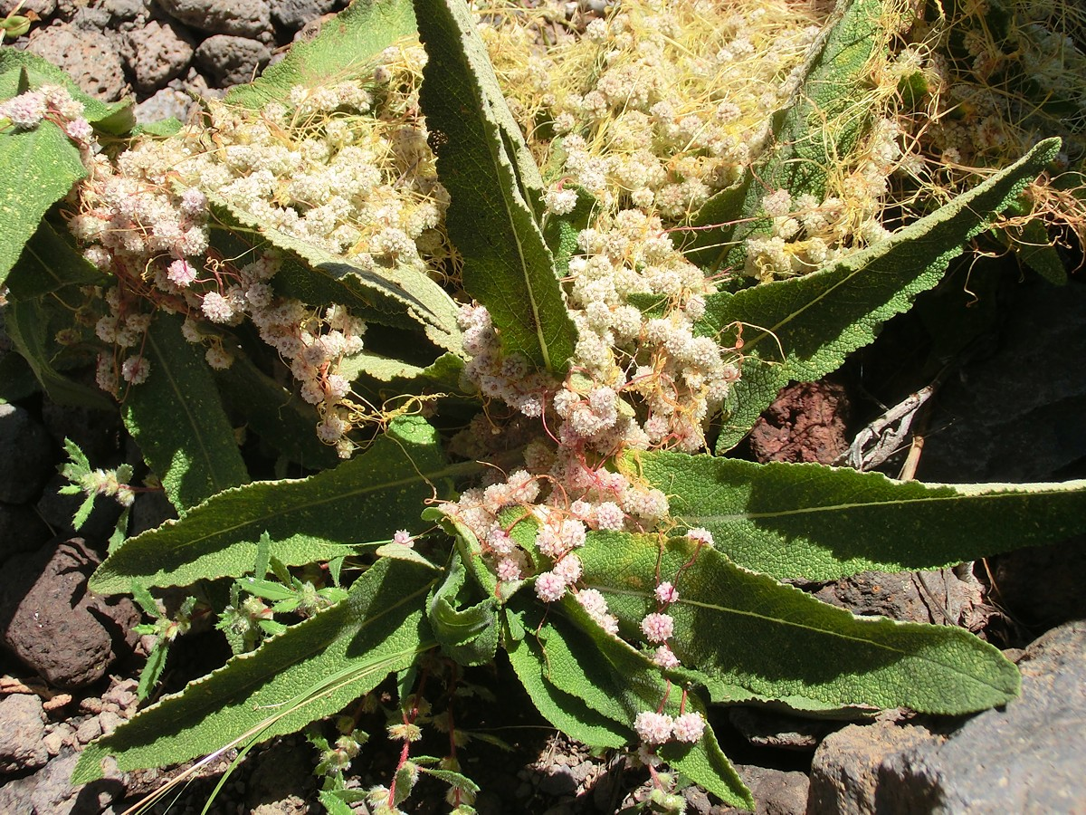 Cuscuta planiflora, habit. W Tenerife, Teno mountains, valley S of Santiago del Teide, NW of Tamaimo, open shrubland, ca. 700 m.